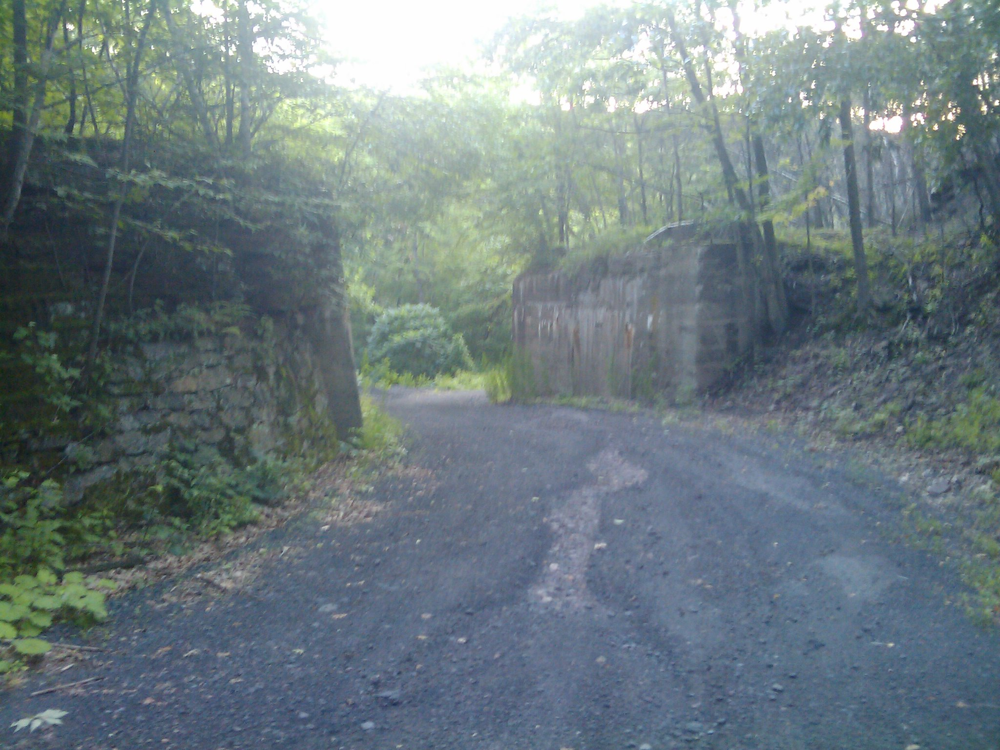 Original description from Flickr "Abutments on either side of Lehigh Rd." View of abutments from the ruins of the Ashley Planes in Luzerne County, Pennslylvania, USA in 2009